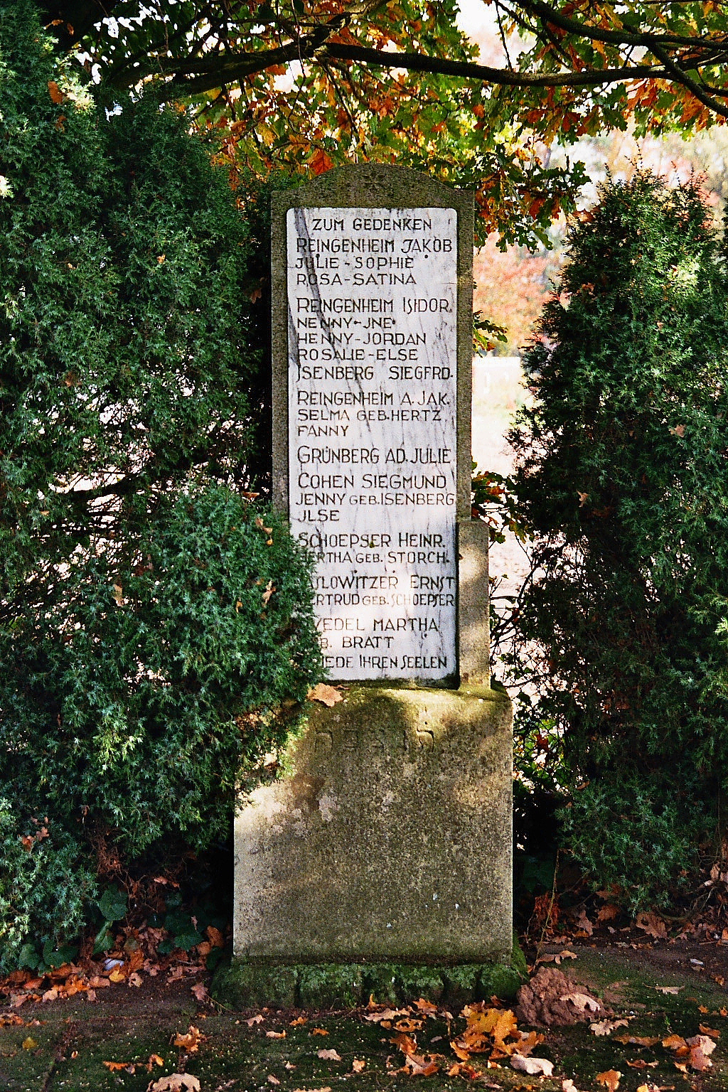 Grave monument in the Jewish Cemetery of Hopsten, Kreis Steinfurt, North Rhine-Westphalia, Germany.